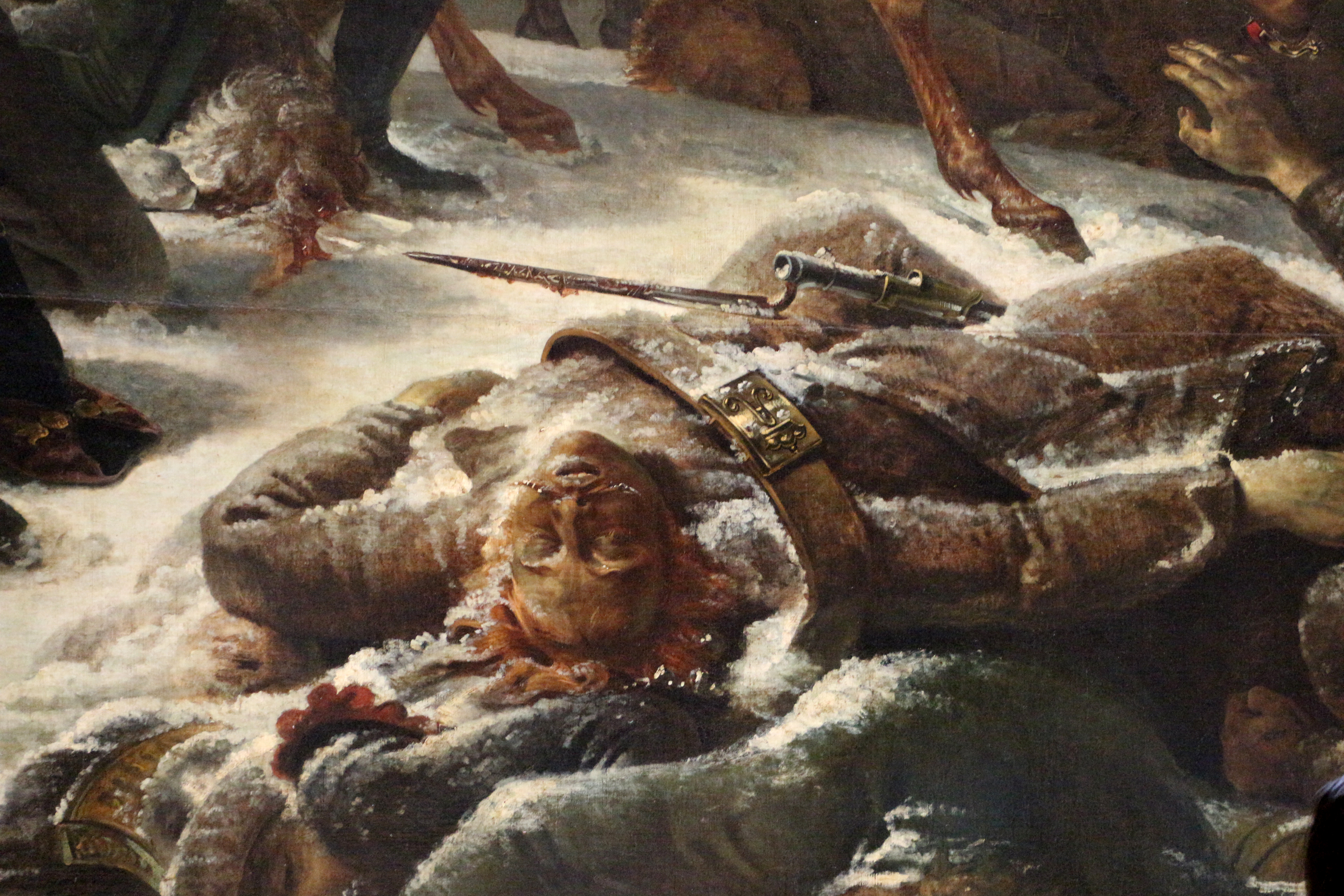 French paintings in the Louvre